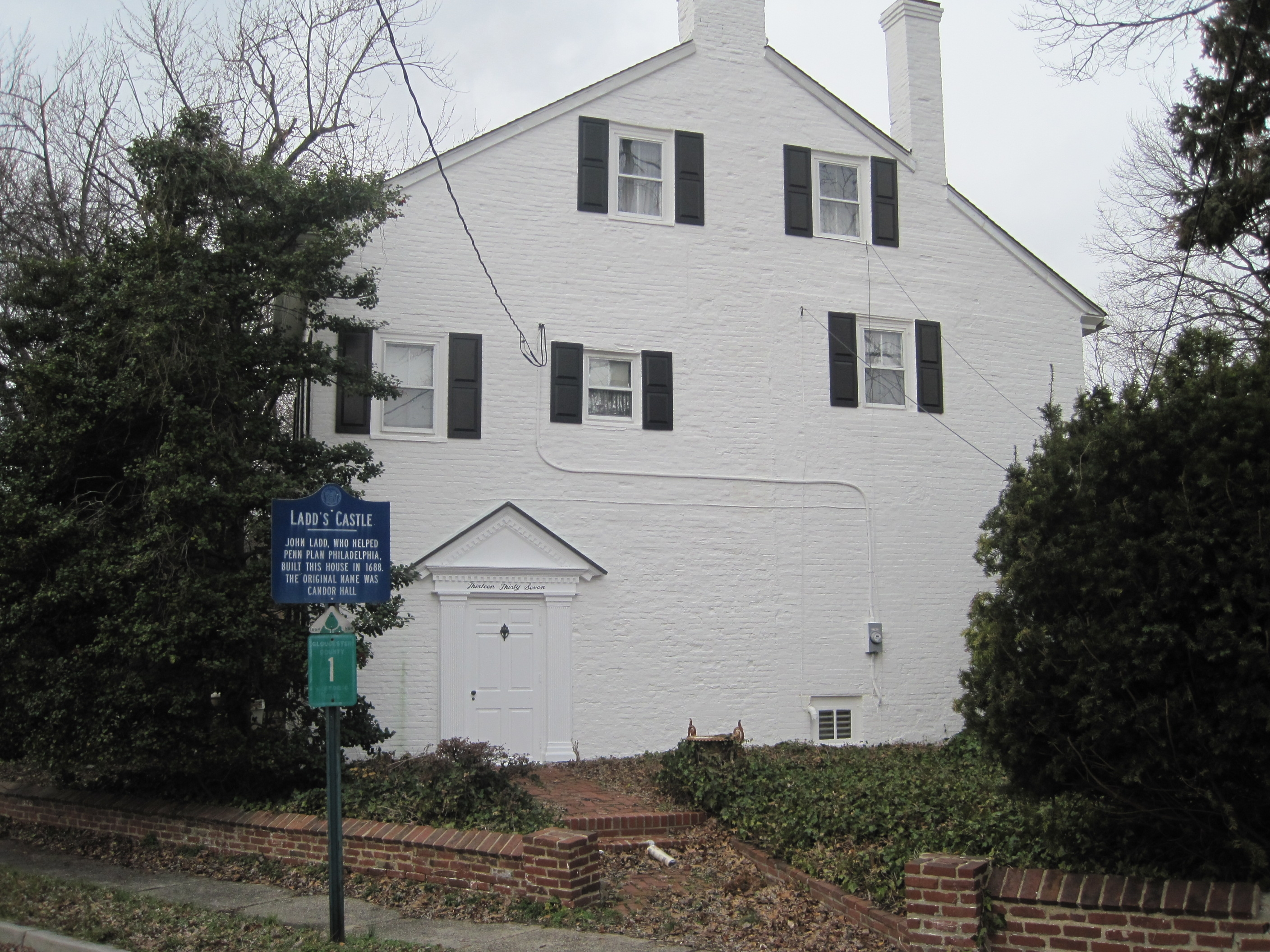 In 1688 John Ladd, a surveyor of Philadelphia for William Penn, became the possessor of about 7,000 acres of heavily timbered land, fronting on the Delaware River, forming what was first called Cork's Cove, then Ladd's Cove. In later years this became known as Howell's Cove, and later Washington Park (see below). This area is frequently spoken of as the "Horse Shoe," and lies between Gloucester and Red Bank (or Eagles) Point. Shortly after the purchase of this tract of land, Ladd built the Manor House, "Candor Hall," (that exists on Lafayette Street in West Deptford). The main portion of this house was of brick made on the grounds, and flanked on either end by expansive wings: of hewn timber. The brick two-story portion is still standing on Lafayette Street in Colonial Manor, W. Deptford NJ